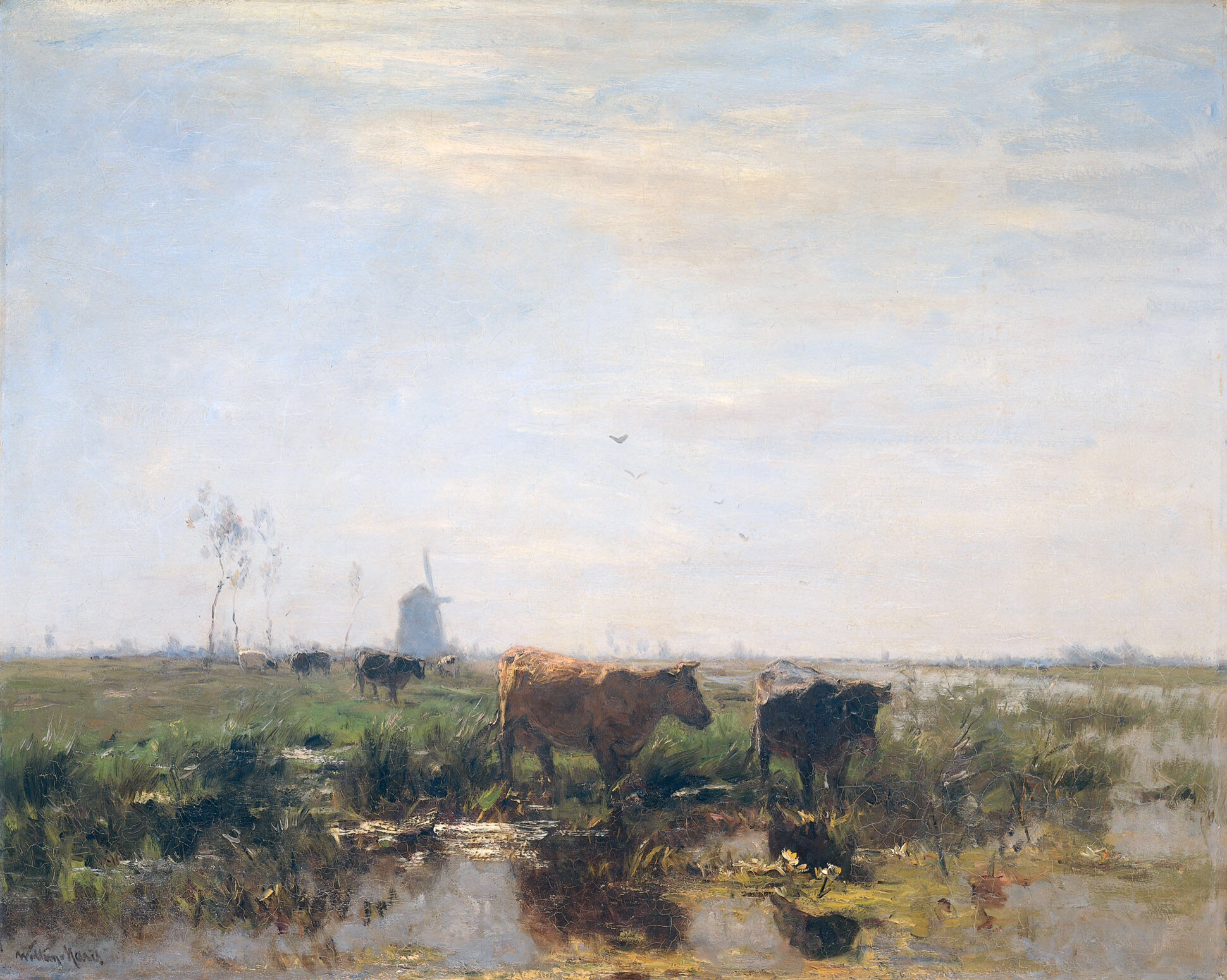 Weidelandschap met koeien aan het water, Rijksmuseum